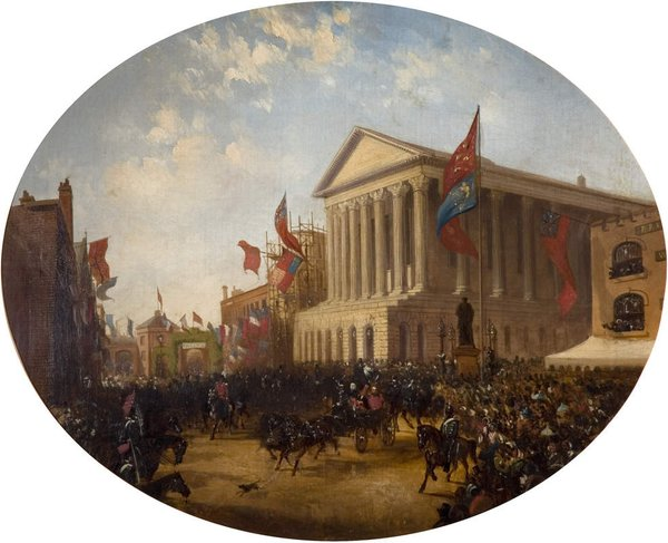 Prince George, Duke of Cambridge, leaving Birmingham Town Hall to open Calthorpe Park on 1 June 1857.